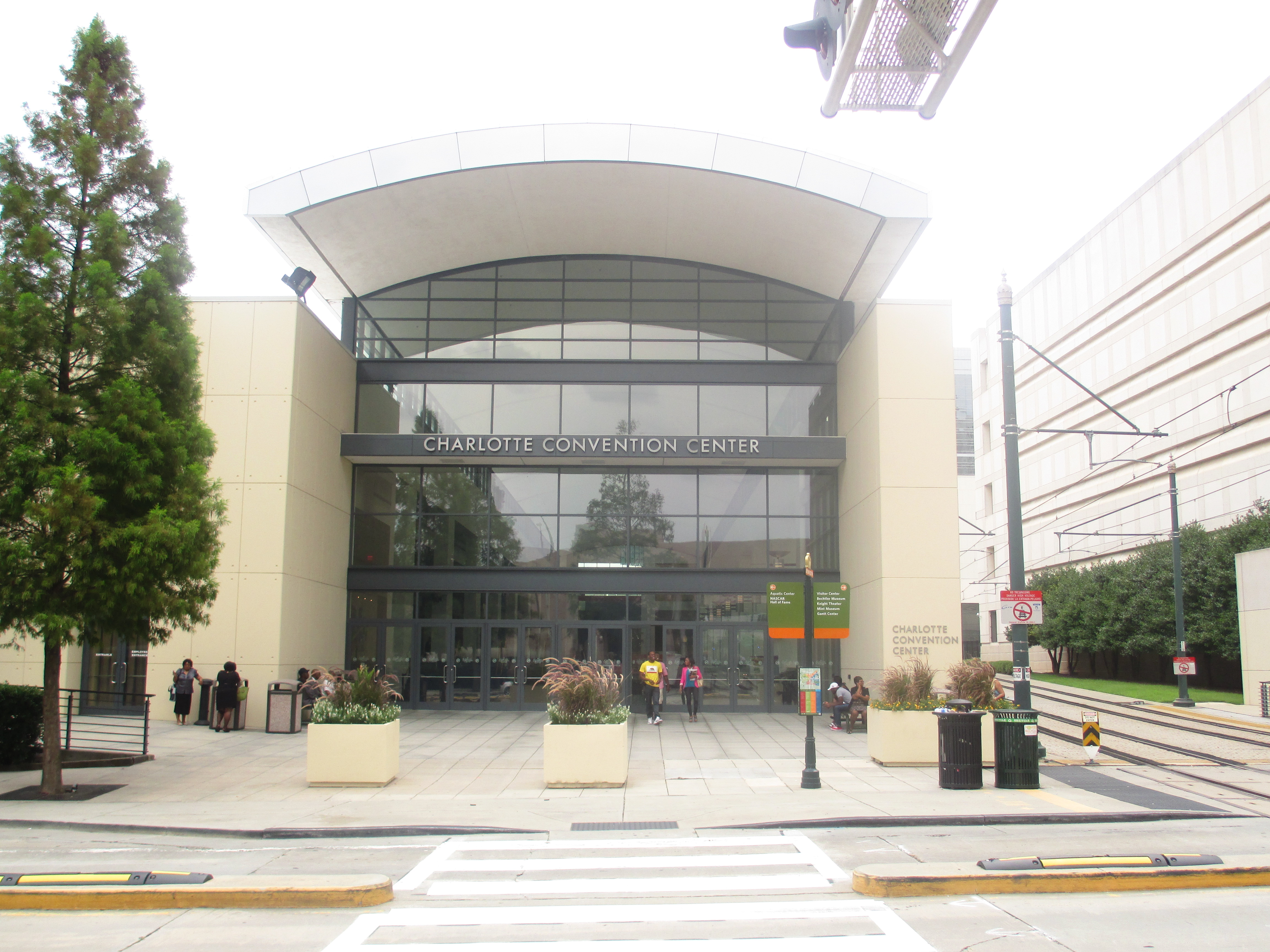 I took photo of entrance to Charlotte Convention Center with Canon camera.